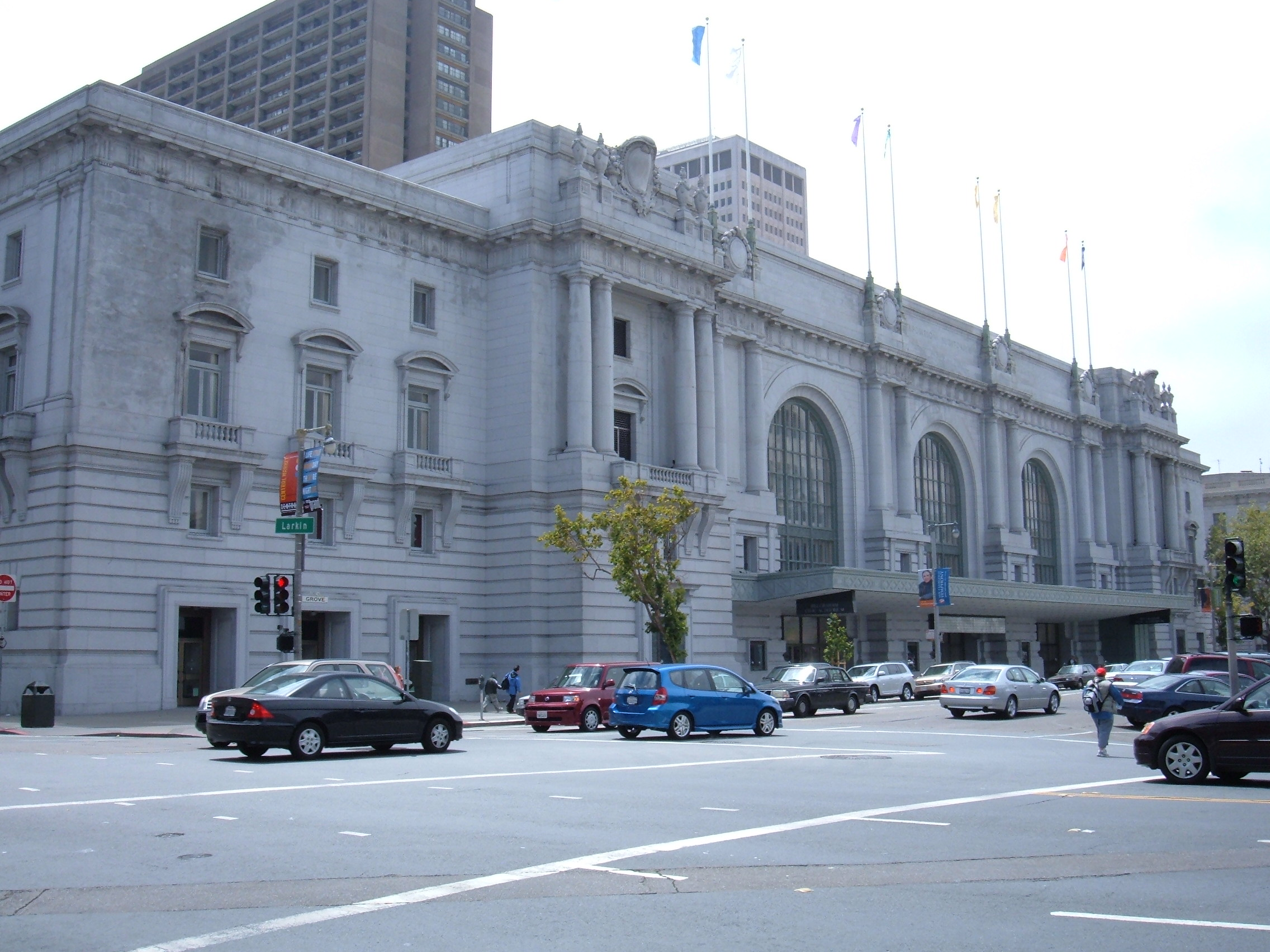 Bill Graham Civic Auditorium as seen from the southeast on Larkin Street.